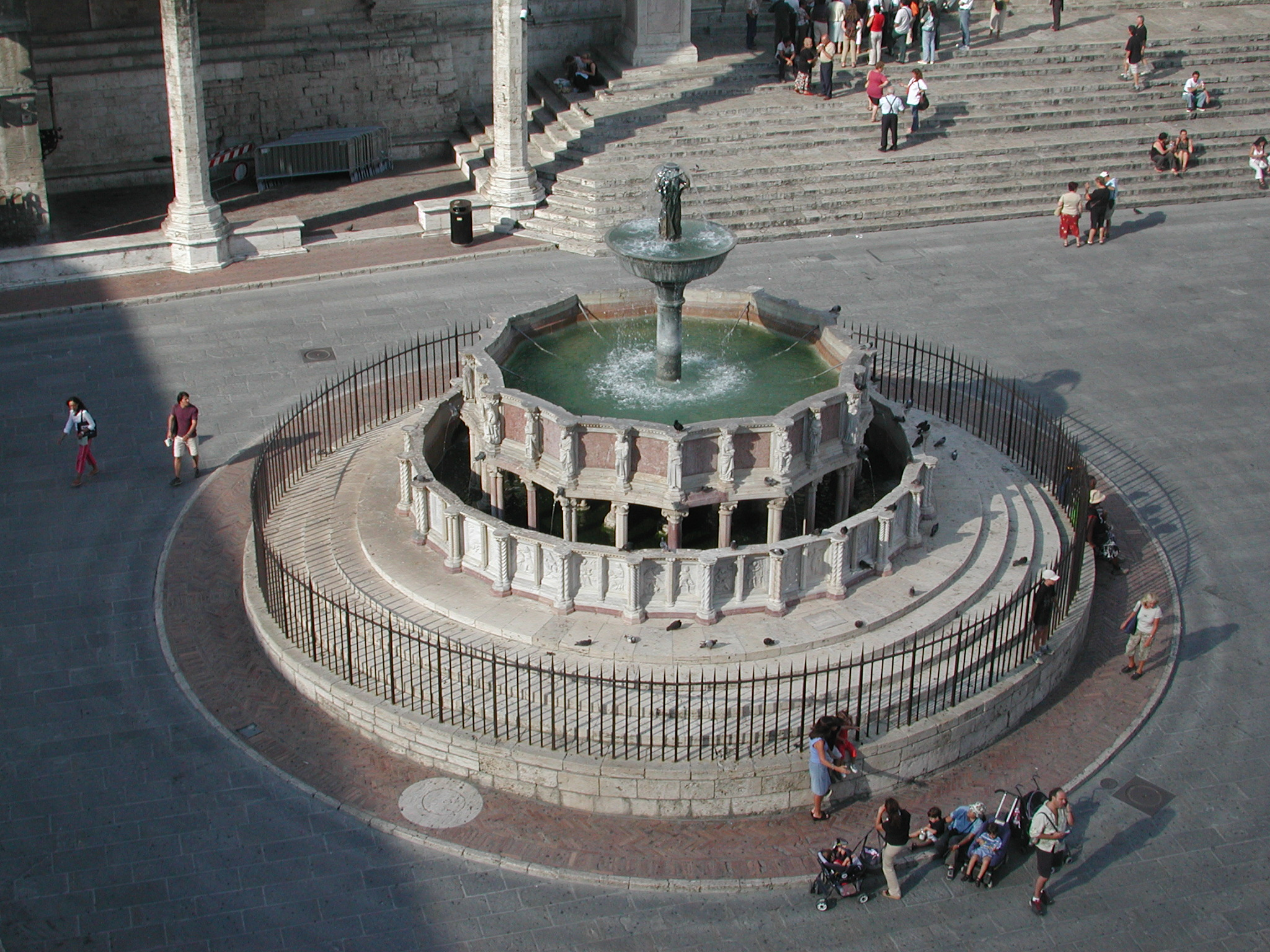 In the main square, with the Palazzo dei Priori and the Duomo nearby.